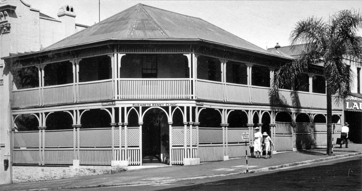 Sister Kenny Clinic, Brisbane. (Also known as The Elizabeth Kenny Clinic and Training School. Located Corner George and Charlotte Streets, Brisbane.)